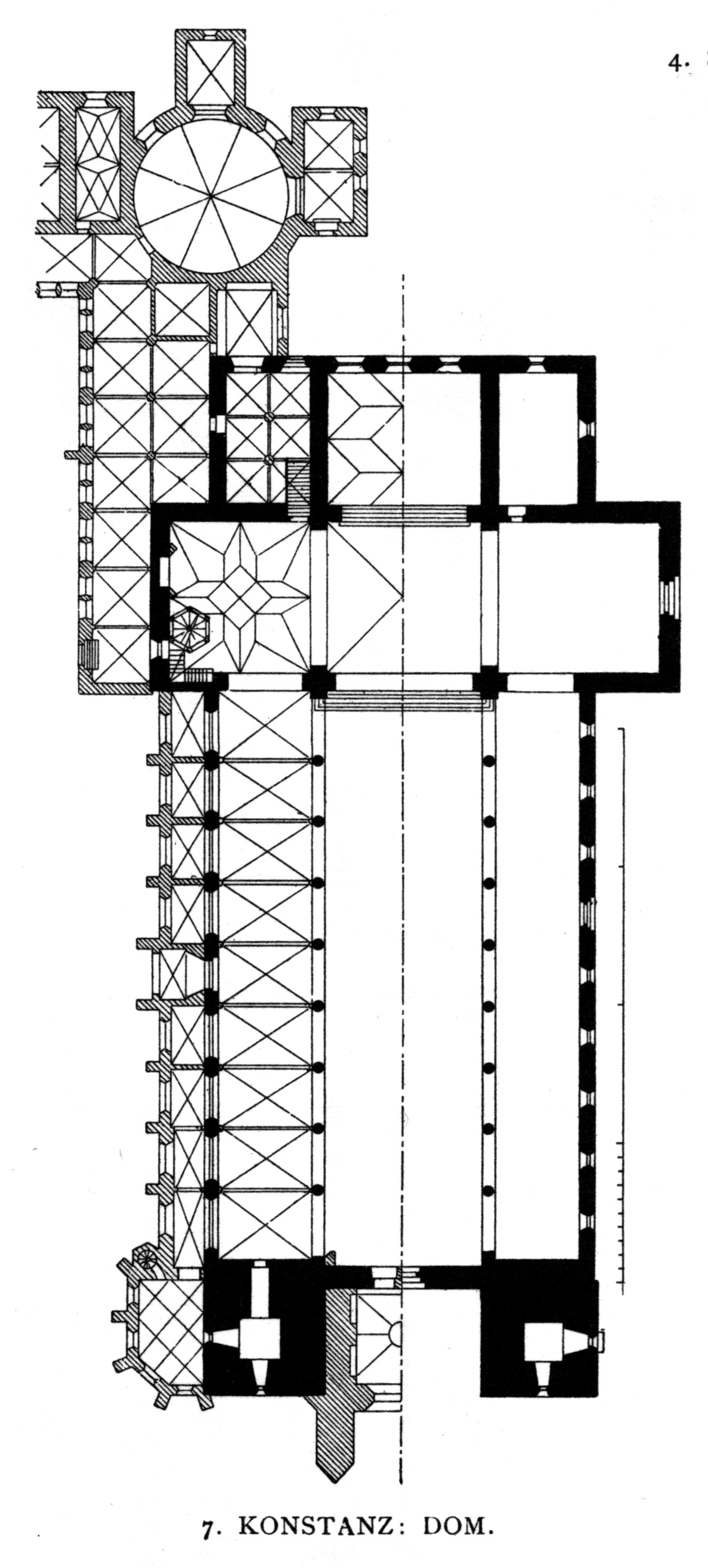 Cathedral of Konstanz. Floor plan